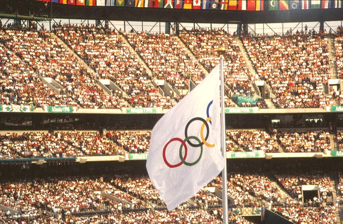 1996 Atlanta Olympics--Olympic flag at track and field venue. Olympic Stadium. Crowd scene.